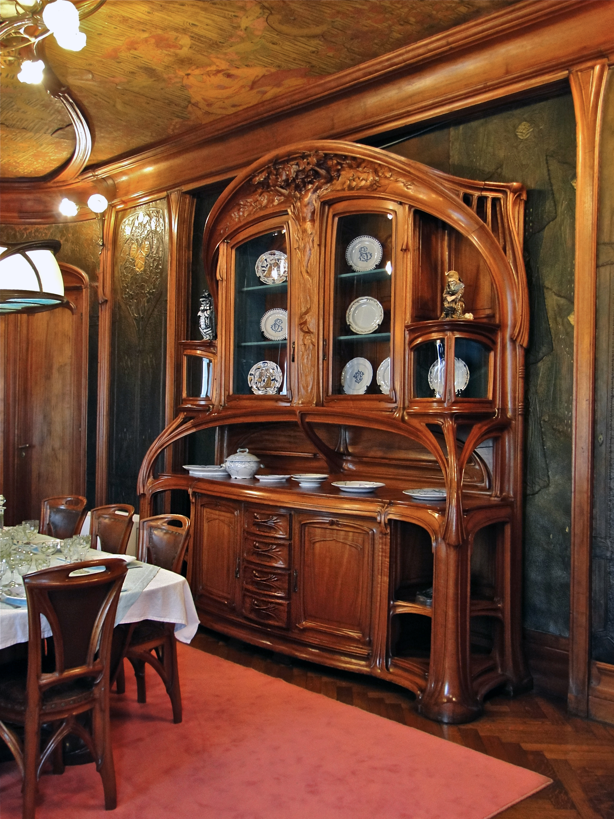 Produced by Eugene Vallin in collaboration with Victor Prouvé (1903-1906). Made out of Blond mahogany, Tooled leather, painted and gilded, Blown glass and cast bronze, Painting on canvas. Gift of Mrs. Charles Masson in 1938. This dining area is by Eugene Vallin which designs and manufactures furniture. This was commissioned in 1903 by Mrs. Charles Masson.